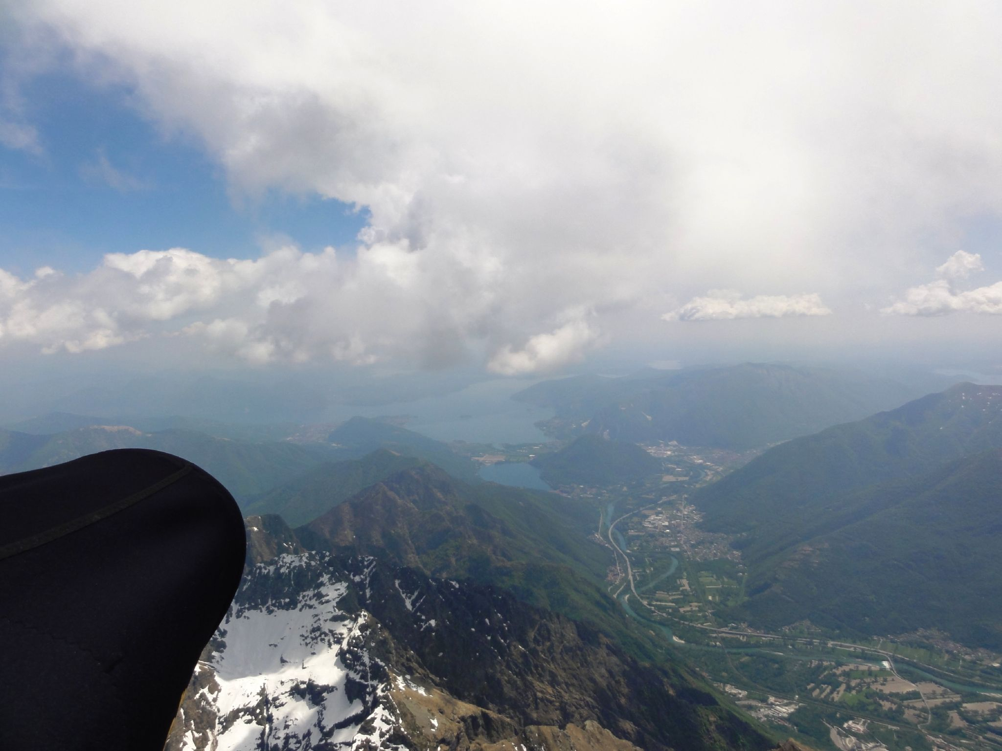 View toward Lake Mergozzo and Lago Maggiore (Italy).